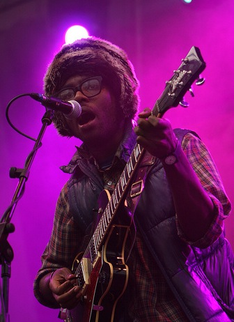 Lightspeed Champion en el Primavera Sound 2008